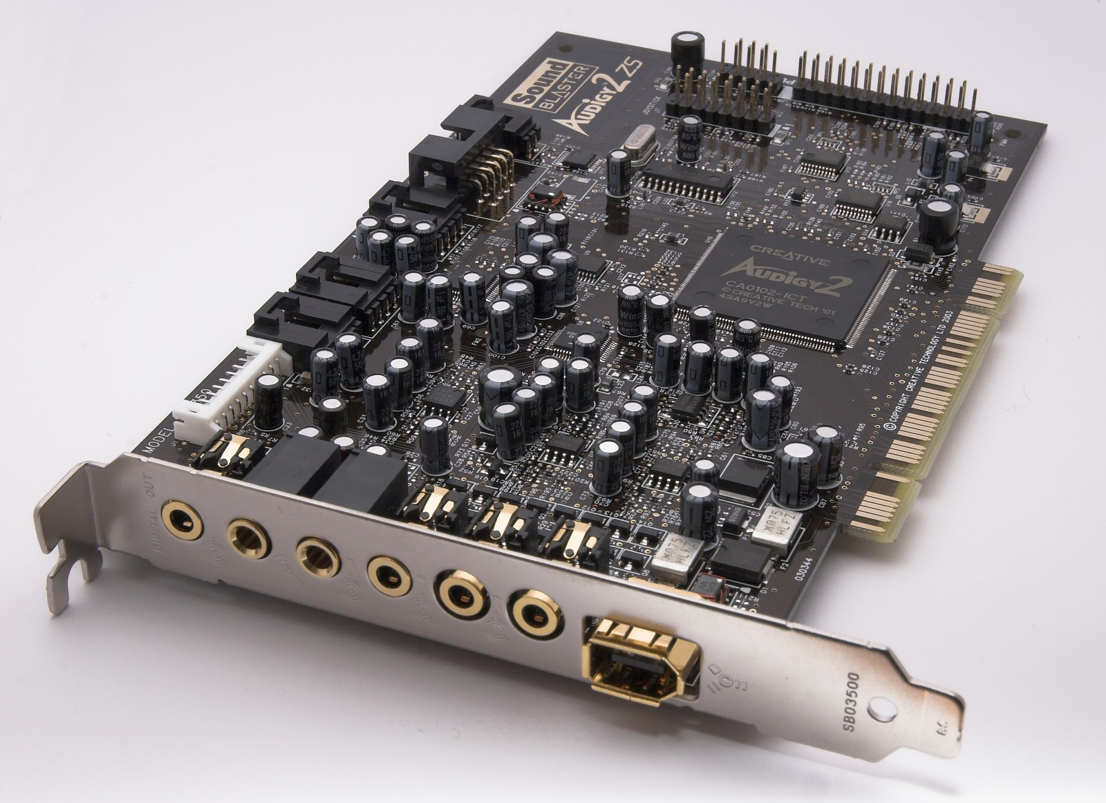 Soundblaster Audigy2 ZS PCI Soundcard